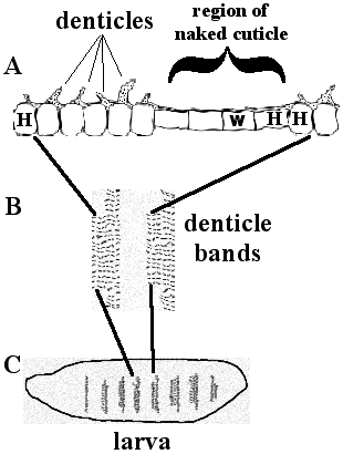 I (JOhn Schmidt) made this diagram based on figure 1 in Segment polarity gene interactions modulate epidermal patterning in Drosophila embryos